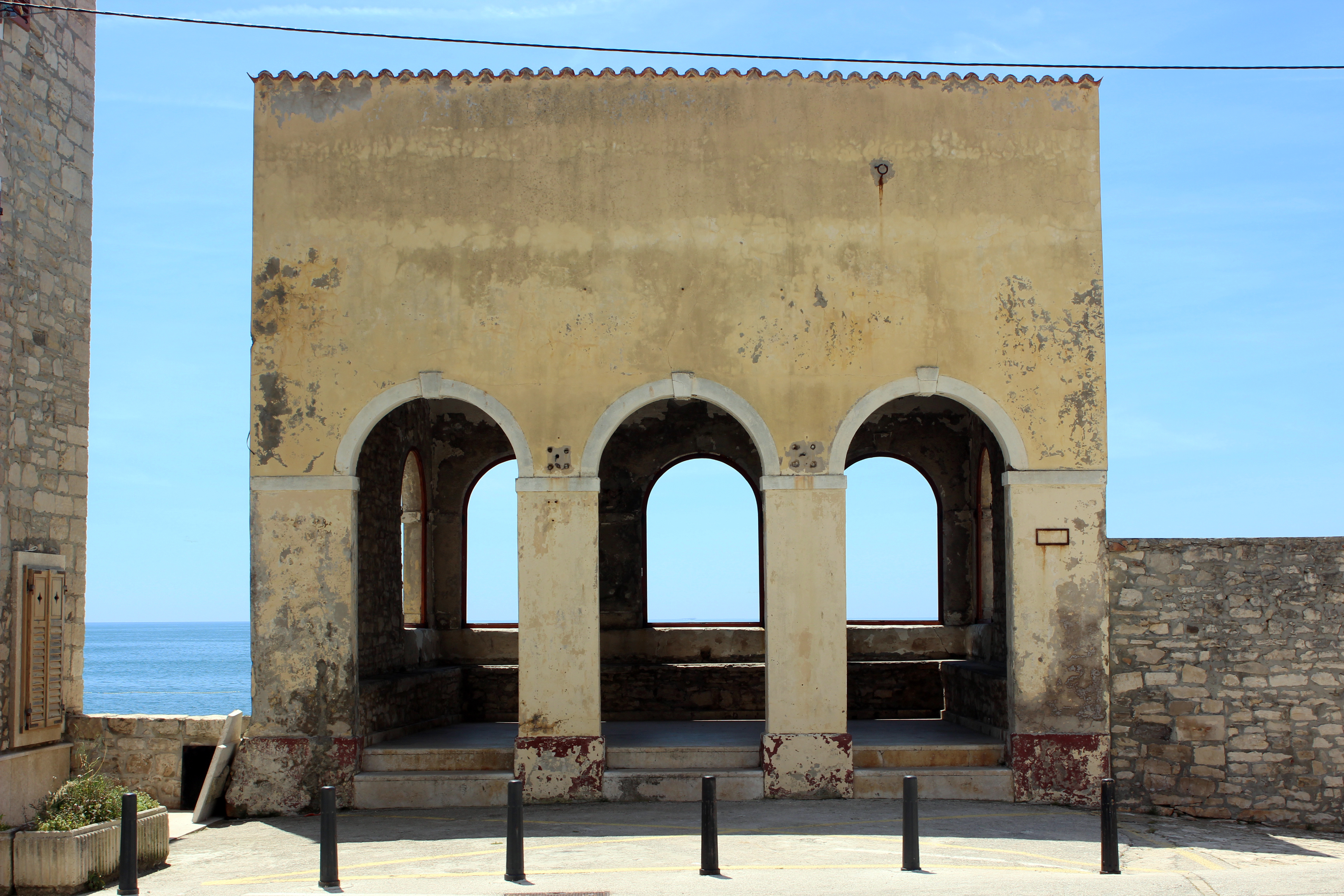 Town loggia (Belveder), in Novigrad, Croatia